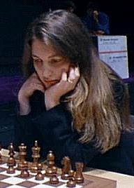 Almira Skripchenko, Dortmunder Schachtage 2001, Photographer Gerhard Hund.